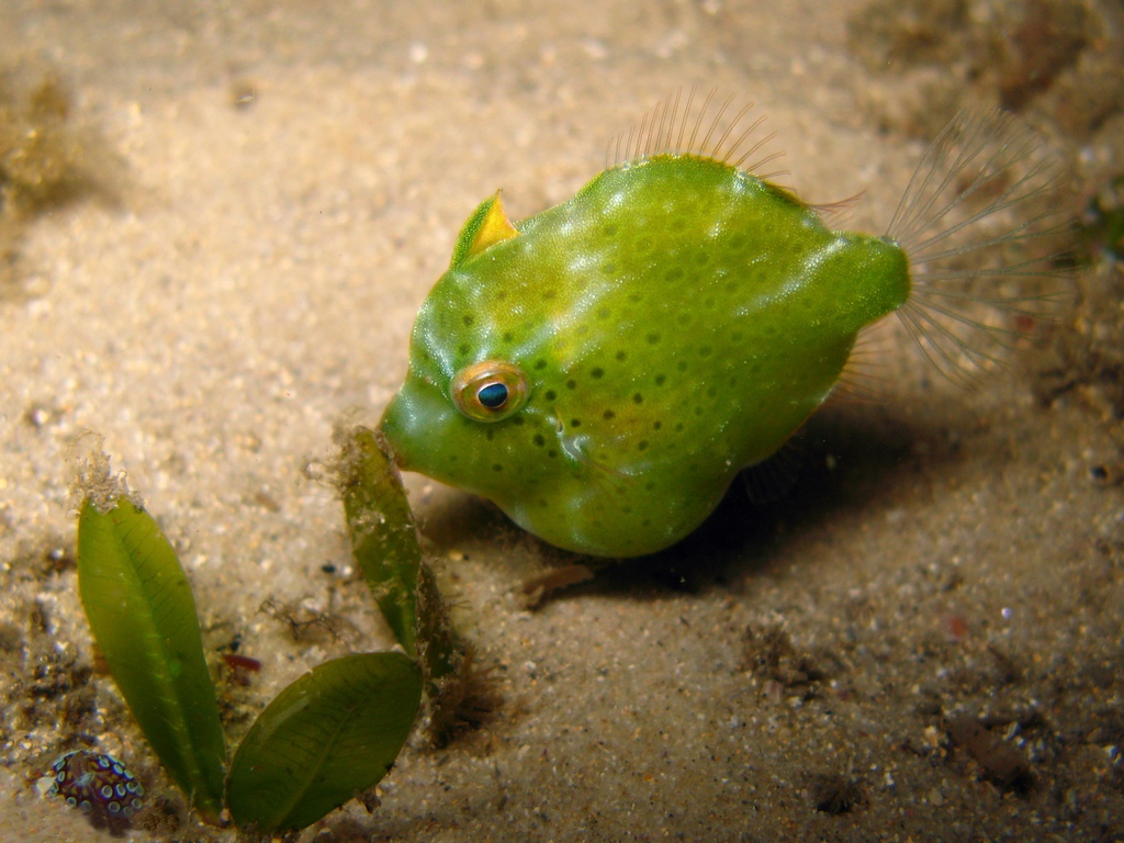 A Pygmy Leatherjacket (Brachaluteres jacksonianus) anchors itself at night by biting onto a plant. Clifton Gardens, Mosman, NSW